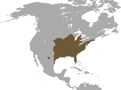 Eastern Mole (Scalopus aquaticus) range